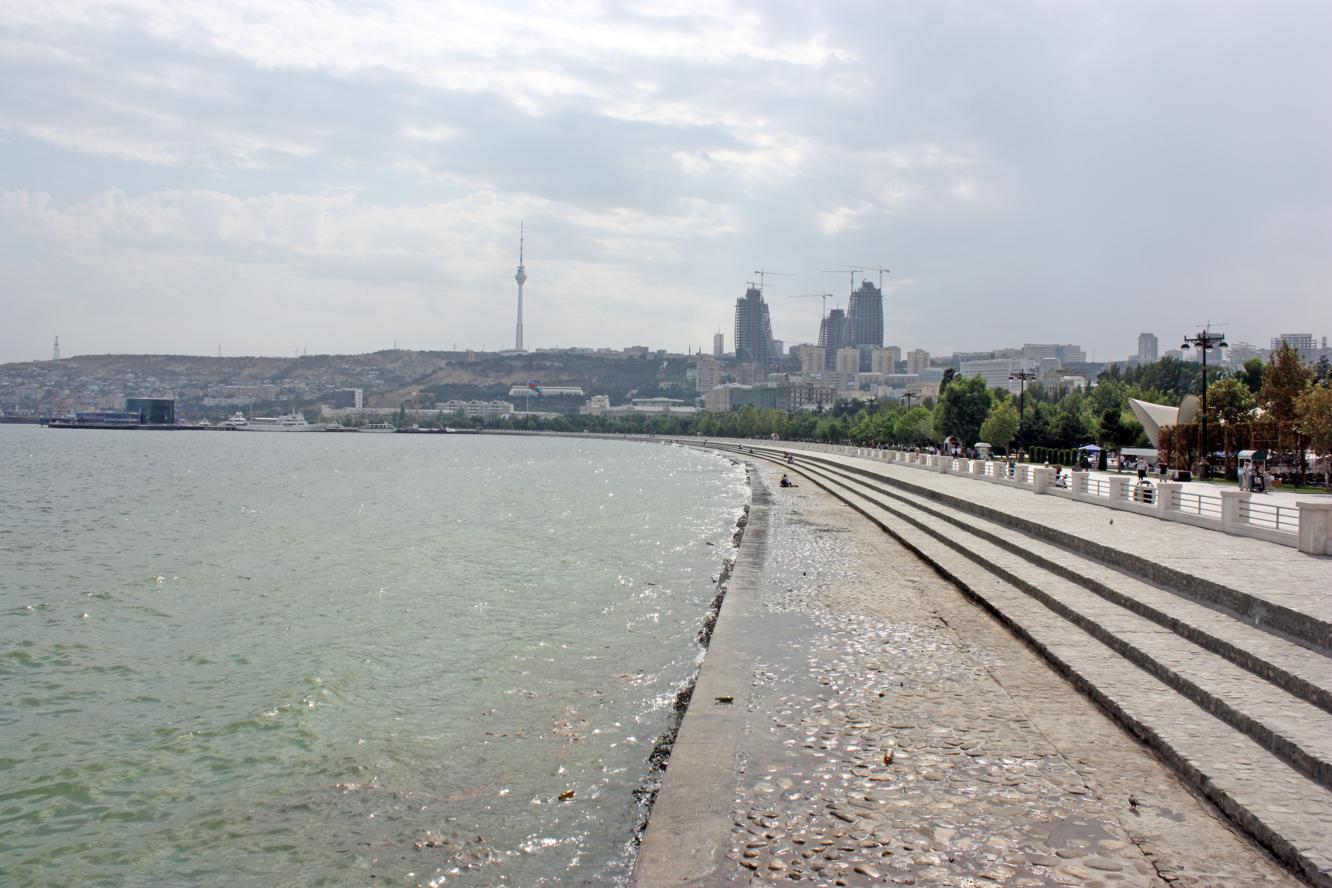 Baku Boulvard, seen from the pier